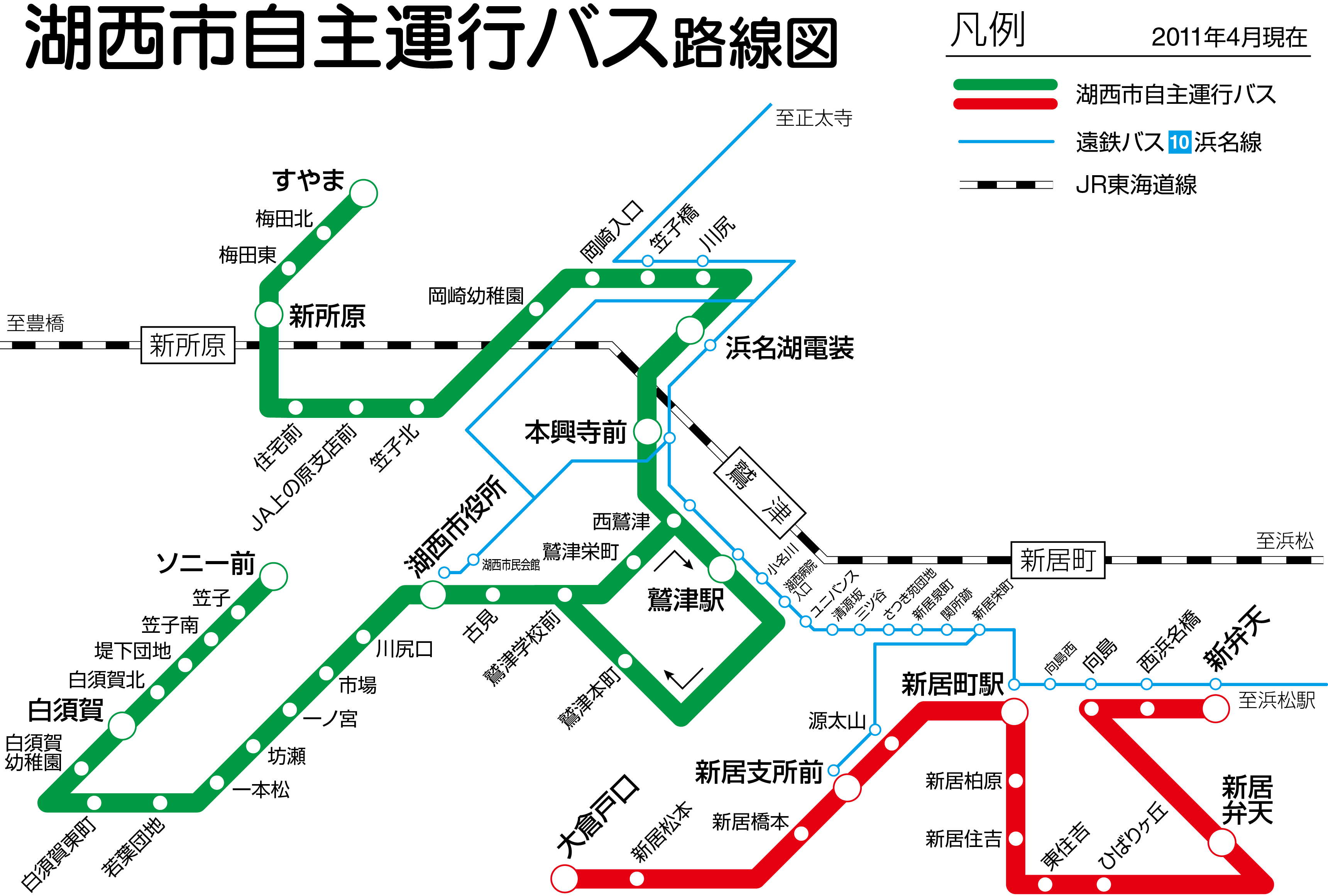 Kosai City (Shizuoka, Japan) Bus Route Map (Apr. 2011)